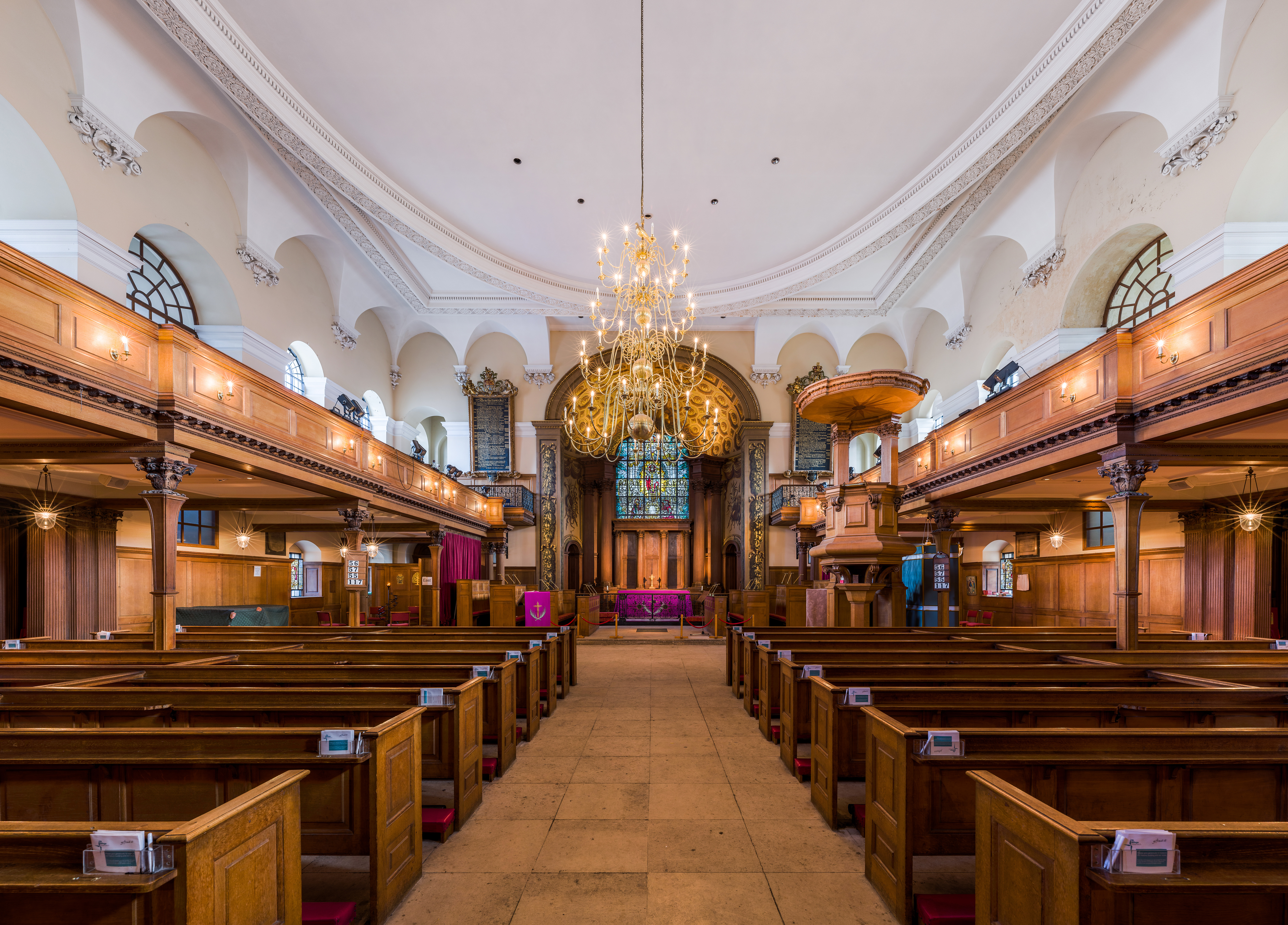 The interior of St Alfege Church in Greenwich, London, England.